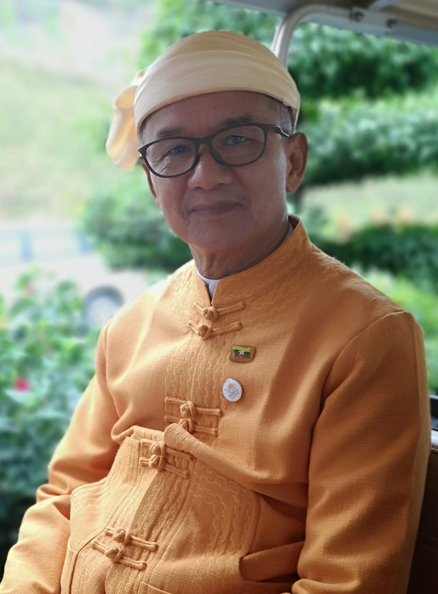 Ohn Maung, Minister of Hotels and Tourism of Myanmar at the ASEAN Tourism Forum 2019 in Ha Long Bay, Viet Nam; organised by TTG Events, Singapore